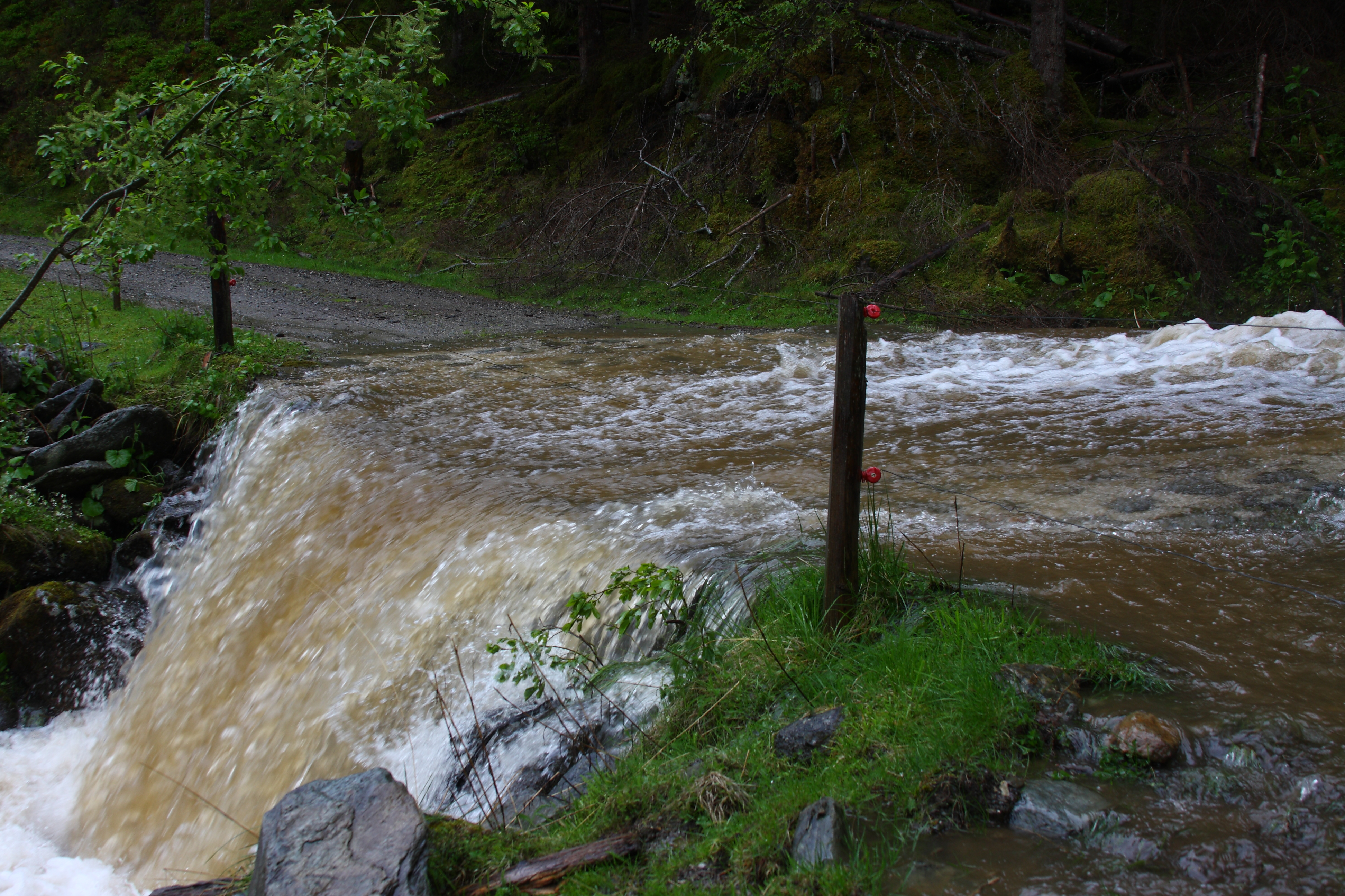 flood 2013,Schladming, Styria, Austria